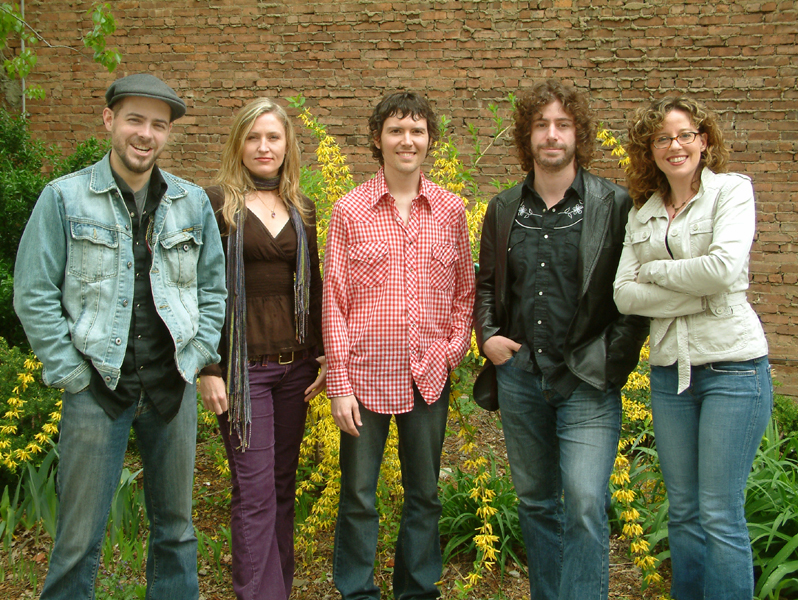 Ollabelle in Brooklyn, NY April 27, 2005 - Photographed by Anthony Pepitone